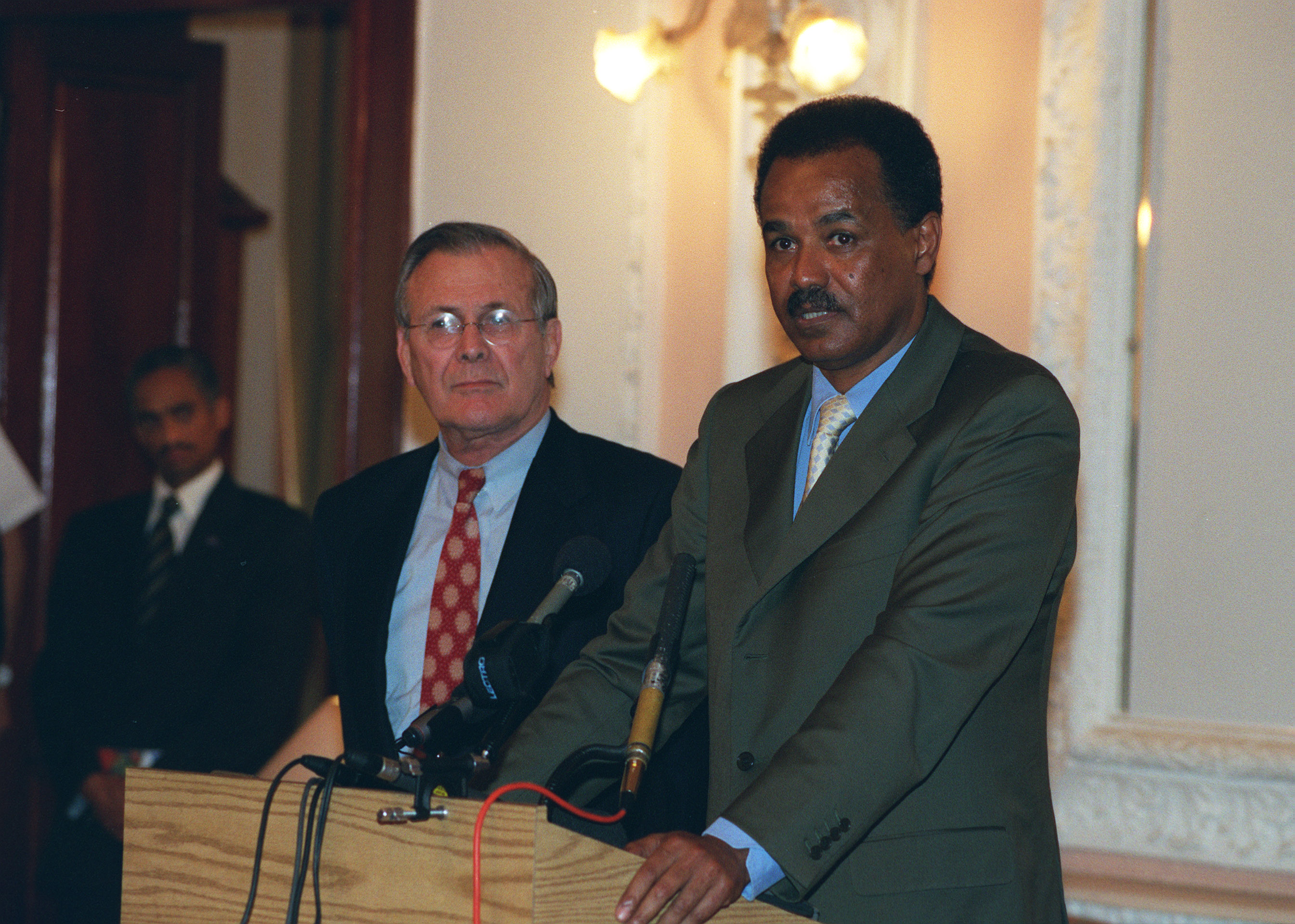 Secretary of Defense Donald H. Rumsfeld listens to President Isaias Afwerki respond to a reporter's question during a joint press briefing at Denden Club, Asmara, Eritrea, on Dec. 10, 2002. Rumsfeld traveled to Eritrea to meet with leaders concerning defense issues and the war on terrorism.